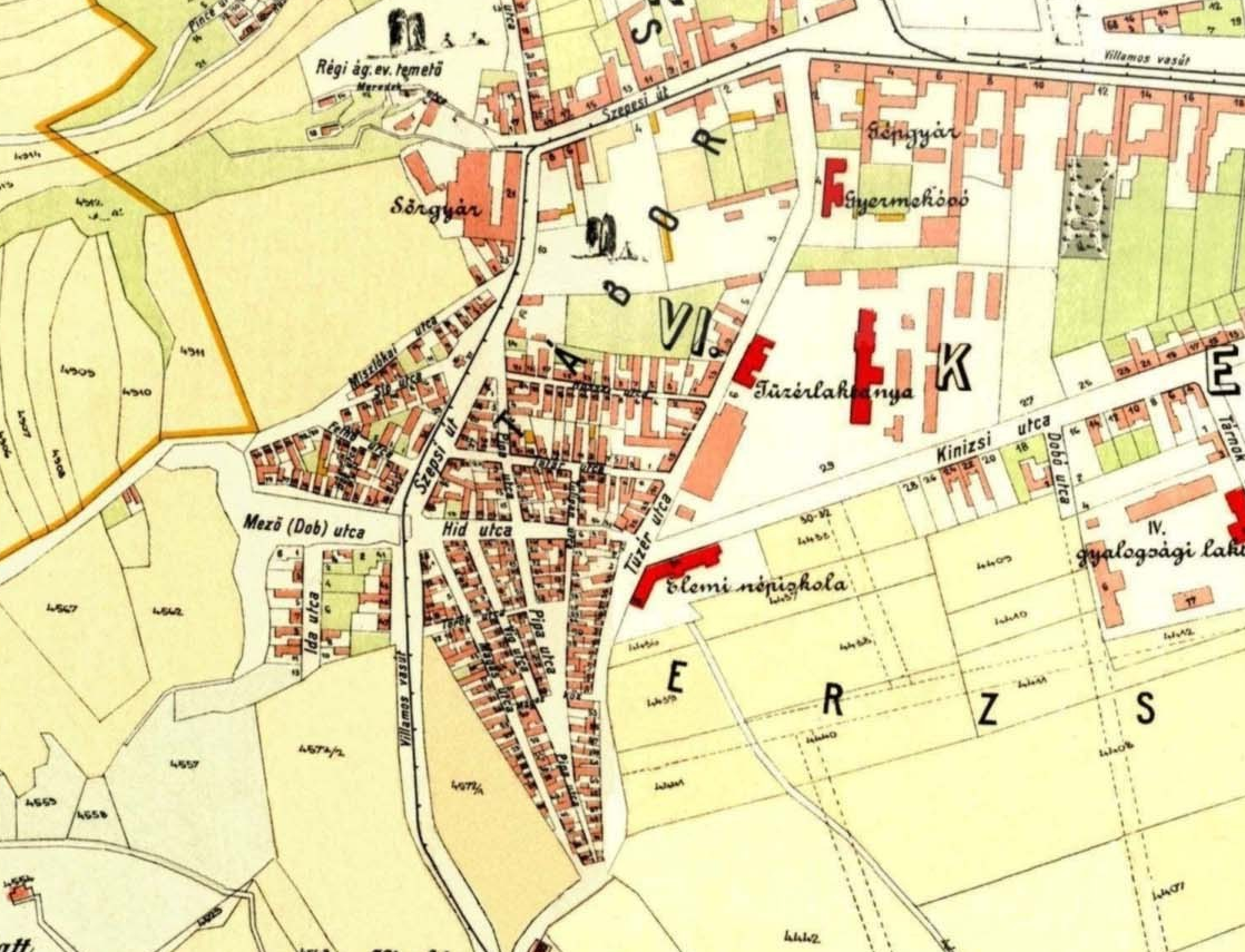 Map of locality Tábor near Košice 1912